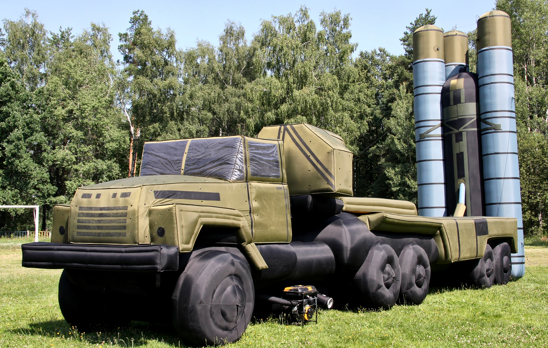 The 45th Separate Engineer-Camouflage Regiment of Russia.